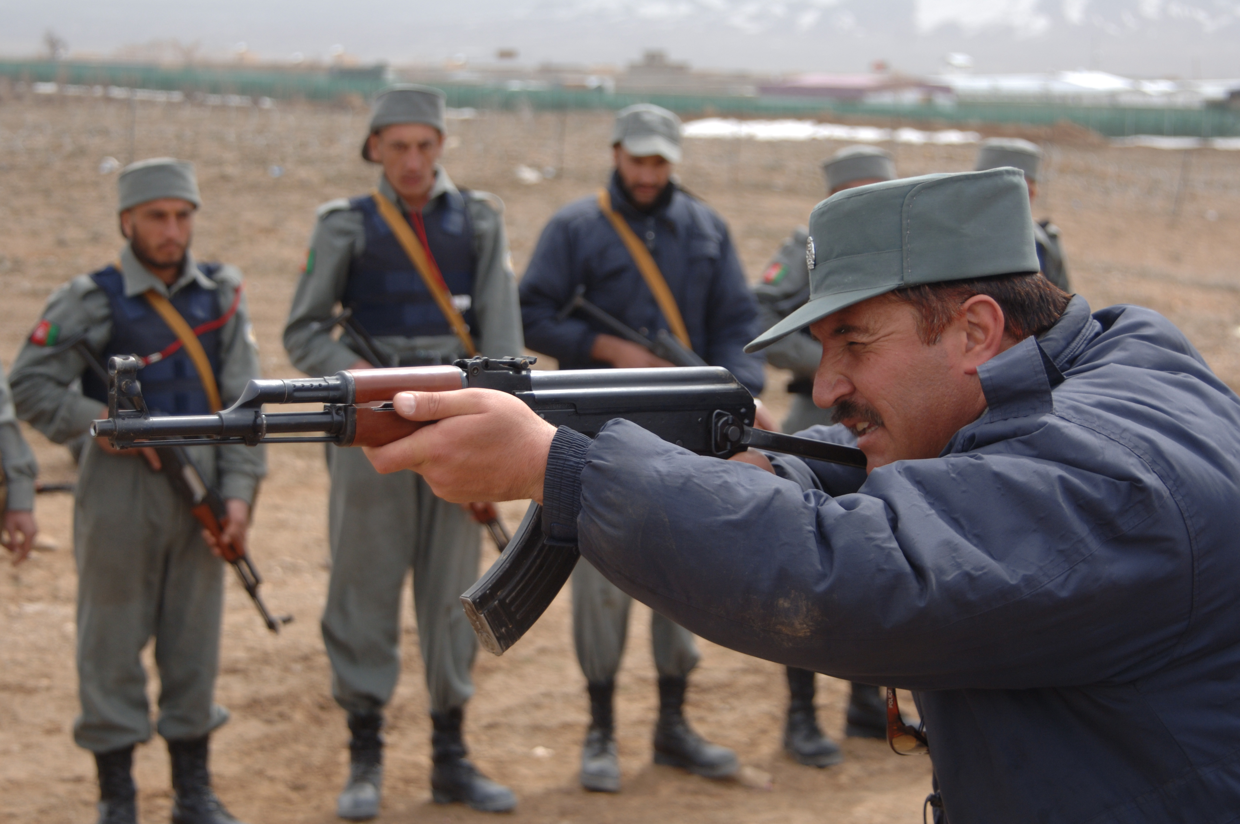 An Afghanistan National Police (ANP) instructor demonstrates to ANP recruits how to aim an AK-47 rifle at a range near the regional training center for the ANP near Gardez, Afghanistan.